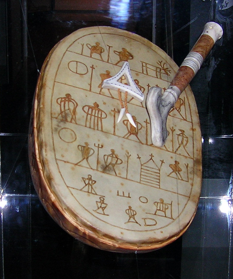 Copy of the rune drum belonging to the 100 year old Saami Anders Paulsen. Museum of cultural history, Oslo, Norway. The rune drum was confiscated by the authorities of Vadsø in 1691. In 1694 it was transfered to the Royal Art Cabinet in Copenhagen, Since 1979, it has been kept in the saami Museum in Karasjok, county of Finnmark, Norway. Photo May 31, 2007 with a Nikon Coolpix 5600 5,1 Megapixel camera.